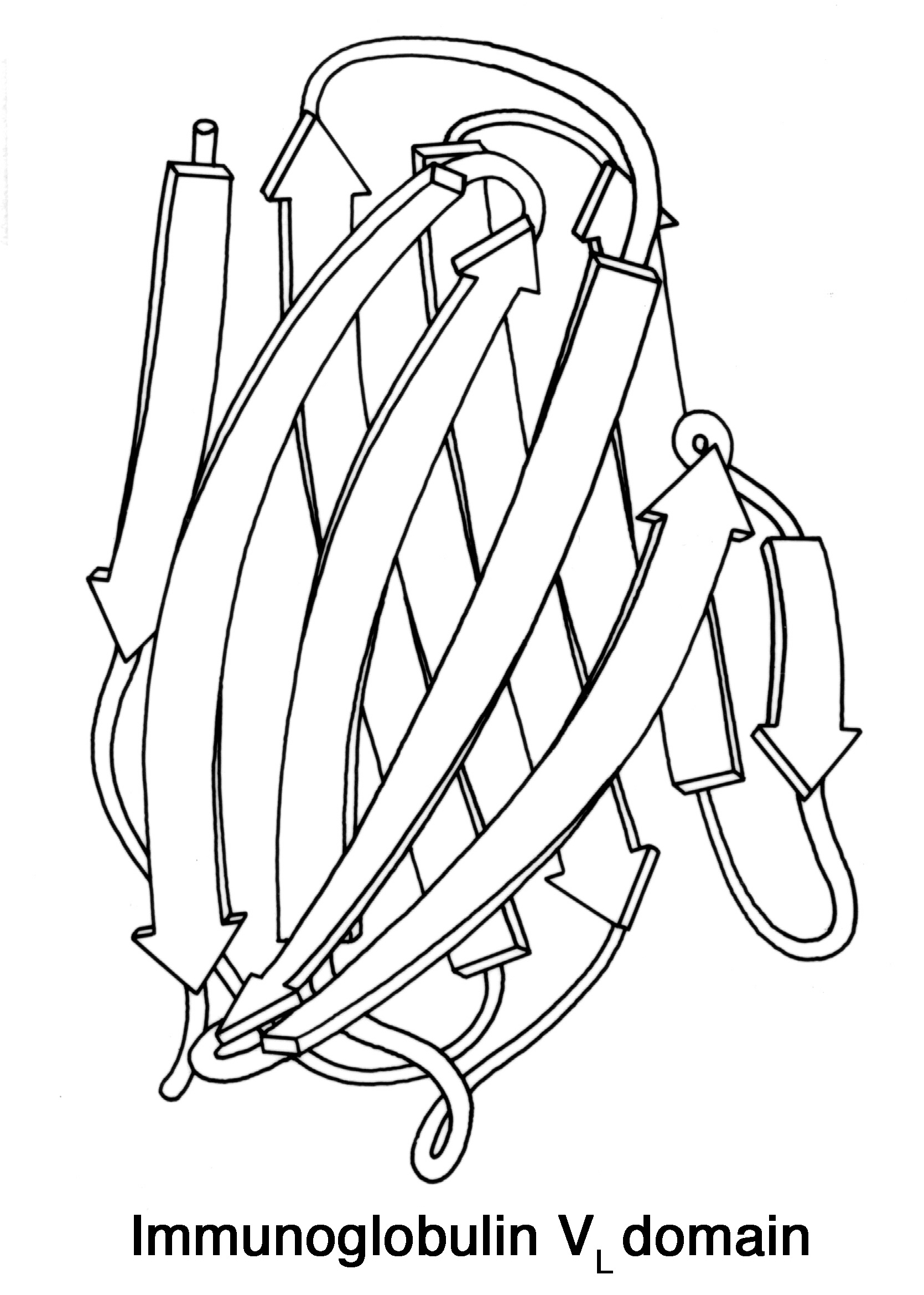 Immunoglobulin light chain variable domain ribbon diagram, hand-drawn from PDB file 1REI.